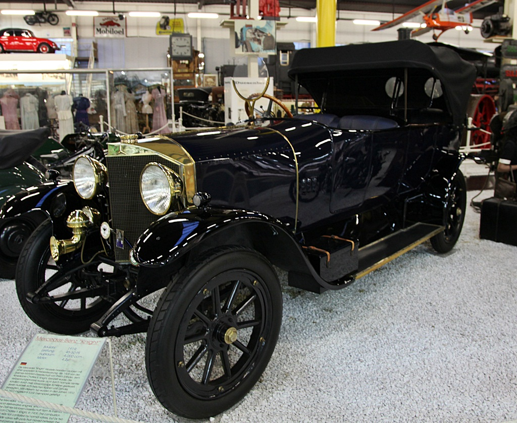 1912 Mercedes Knight, 50 PS, 4.0l 4cyl. engine